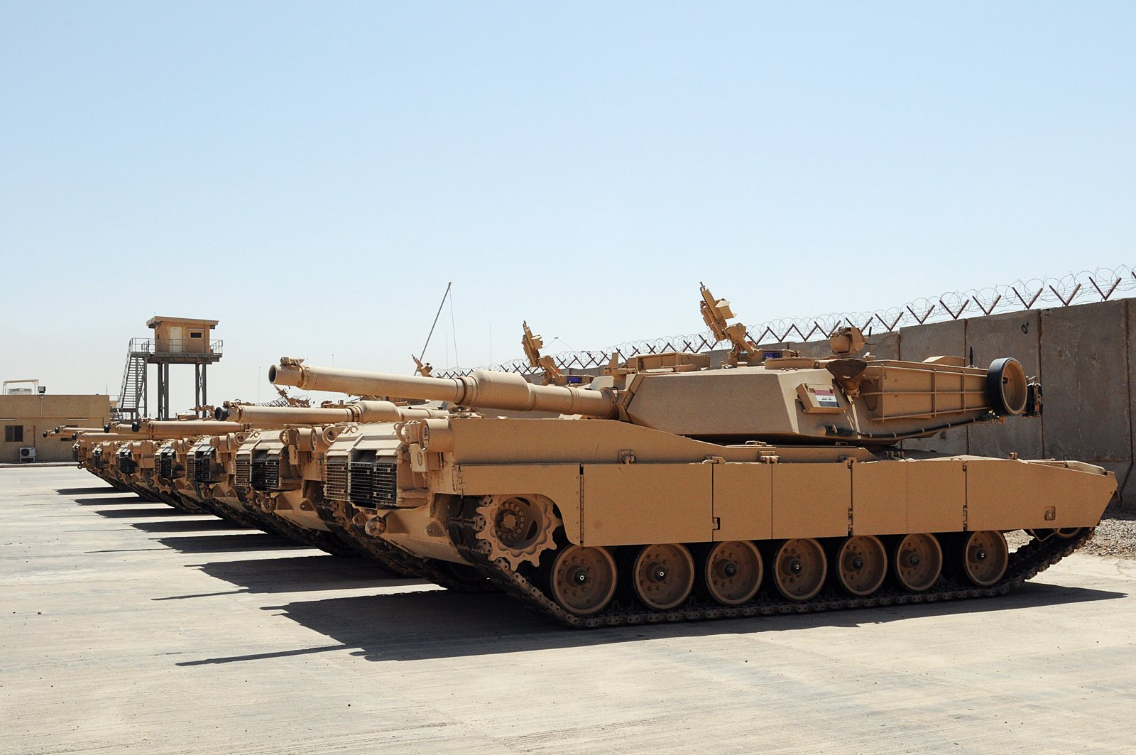 M1A1 Abrams tanks sit parked at a secured compound at the Besmaya Combat Training Center, Iraq. The last shipment of M1A1 Abrams tanks arrived mid-August completing the Government of Iraq's purchase of 140 tanks through a Foreign Military Sales agreement with the United States.